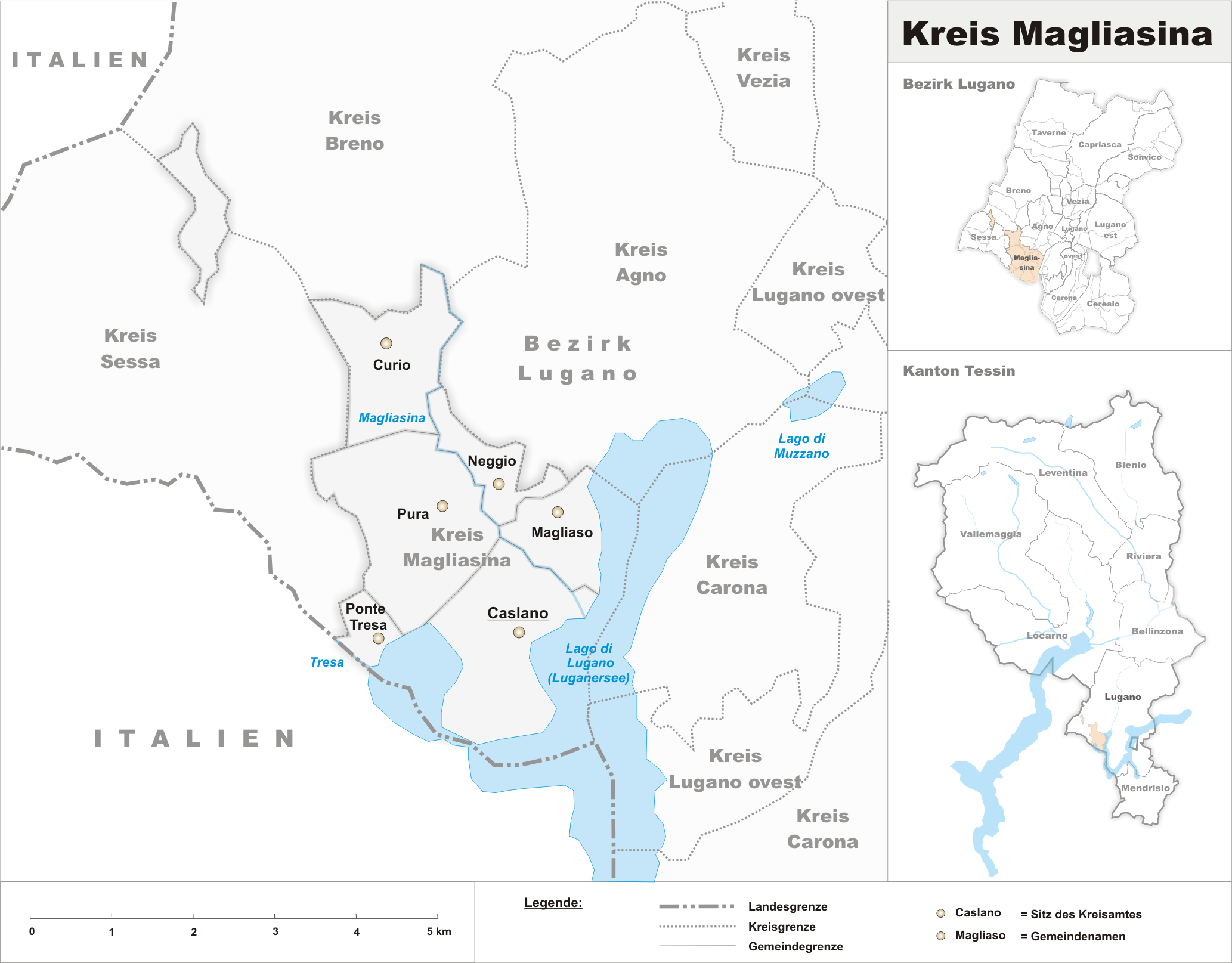 Municipalities in the circle of Magliasina